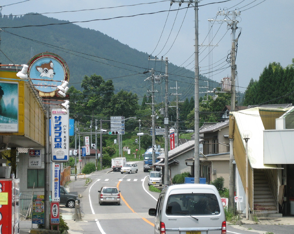 This is a picture of the city of Ouda, Japan. It was taken by me in Ouda. I'm releasing it into the public domain.